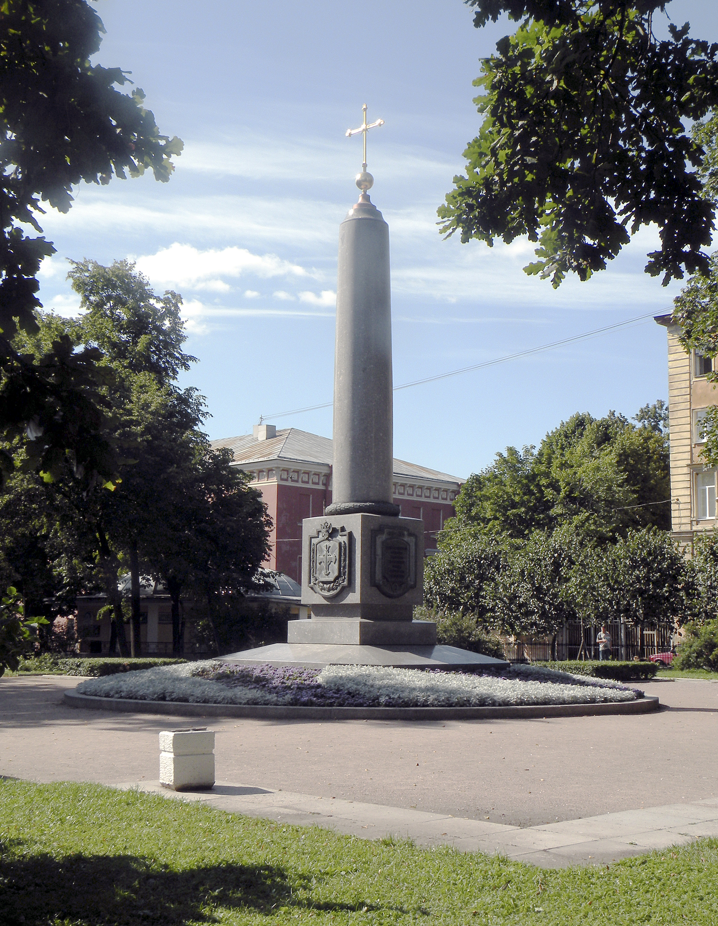 Monument in the Place of the Presentation of the Holy Virgin Cathedral of the Semenovsky Life Guard Regiment (between 45 and 47, Zagorodny Avenue, Saint Petersburg)